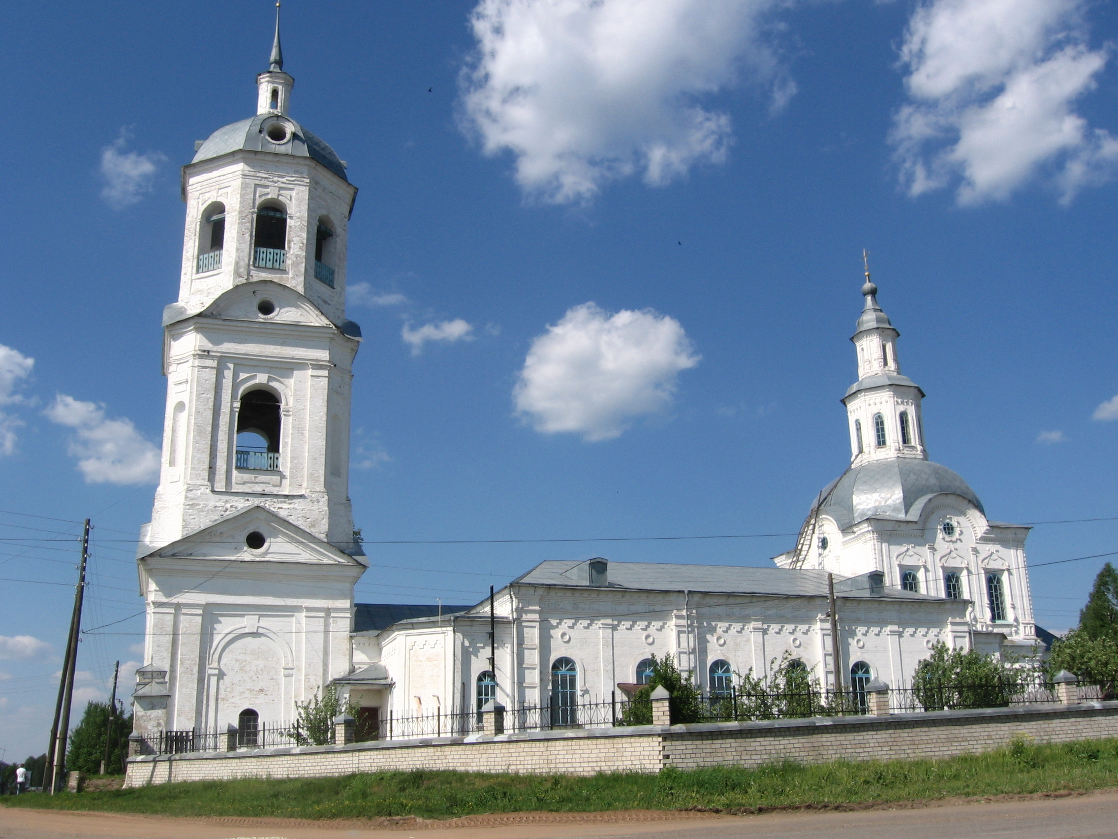 The Church of Zosima and Sabbatius of Solovki, 1777, Kirov region, Russia